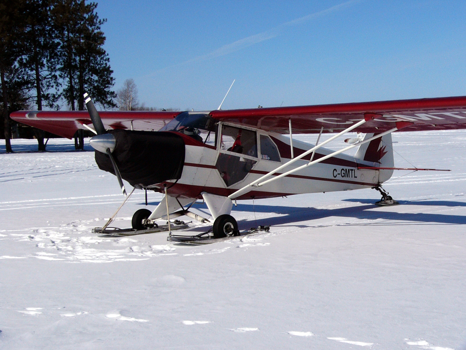 Wag-Aero Sportsman 2+2 at the Cobden, Ontario, Canada ski fly-in